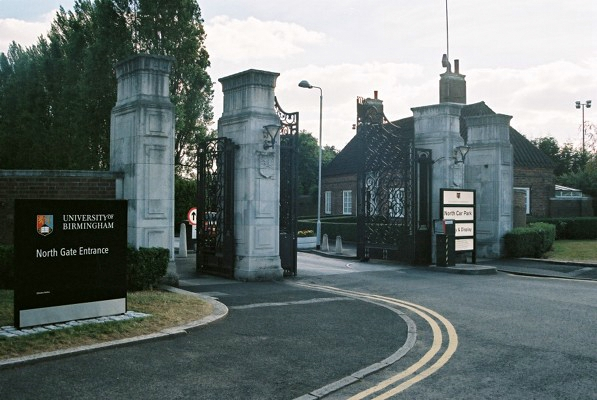 The North Entrance to Birmingham University, Pritchatts Road. Lodge, Gate Piers and metalwork all designed by William Haywood Honorary Secretary of The Birmingham Civic Society